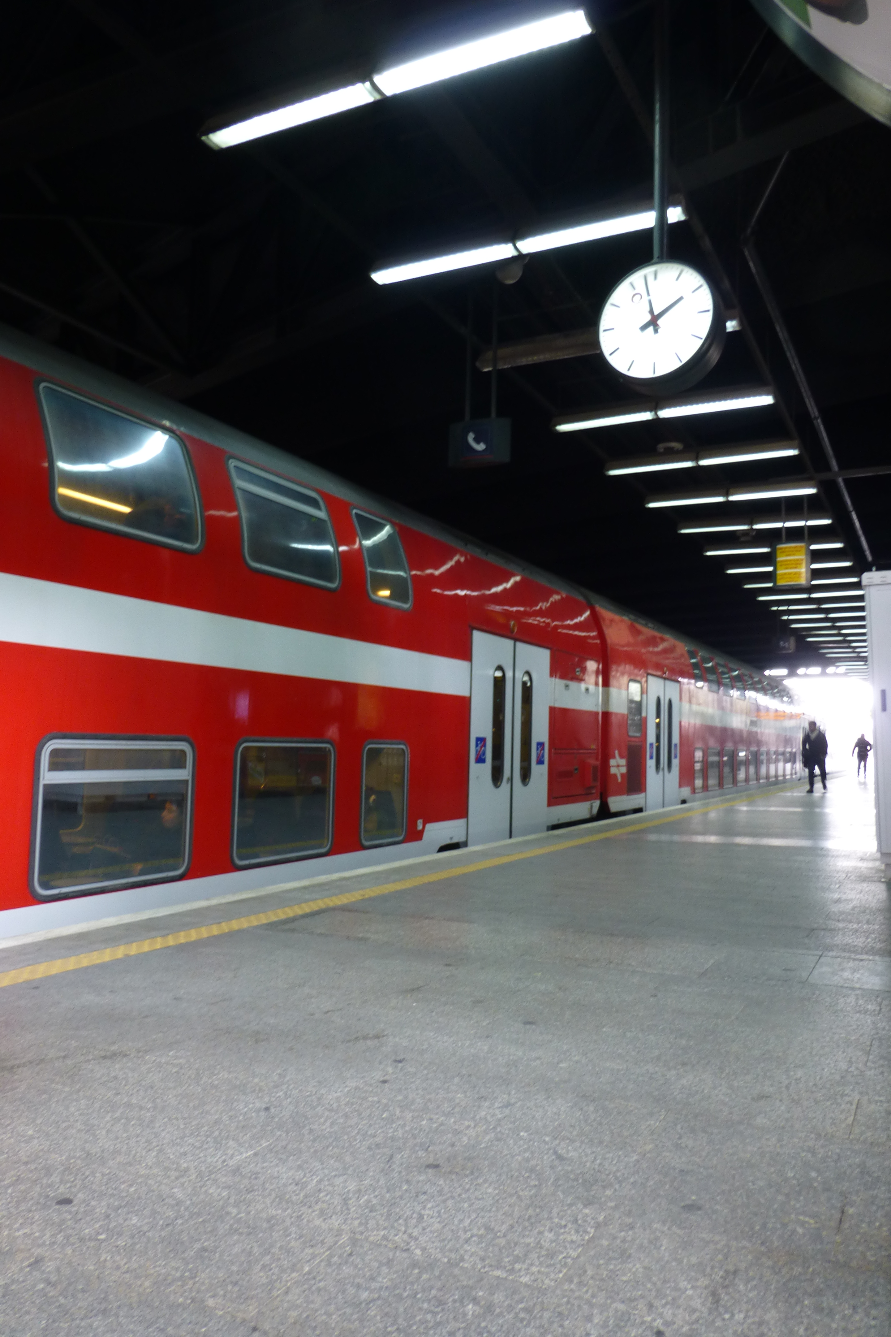 Tel Aviv HaShalom train station